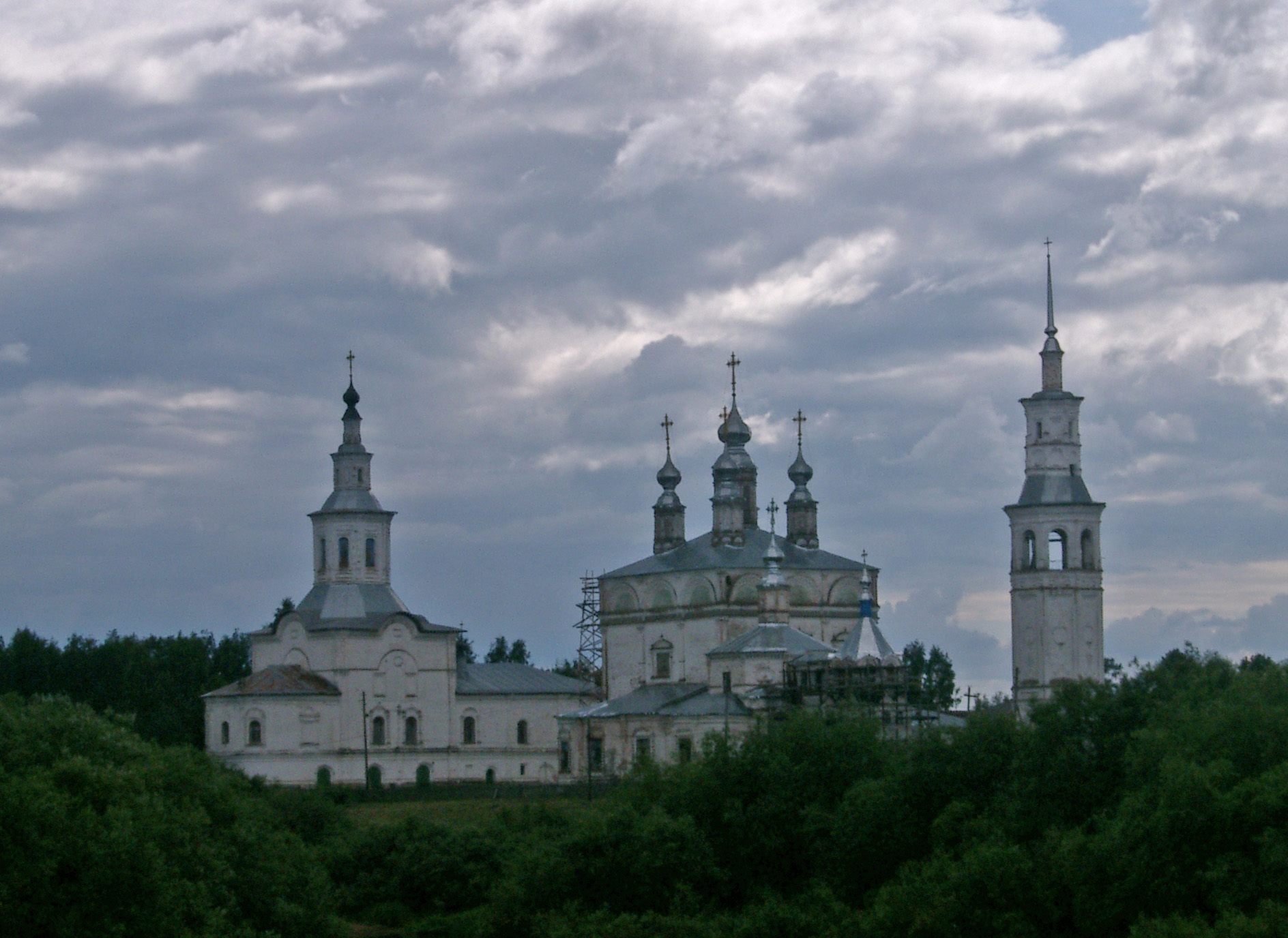 Lalsk, Churches of the Annunciation and the Resurrection of Christ (from l. to r.).